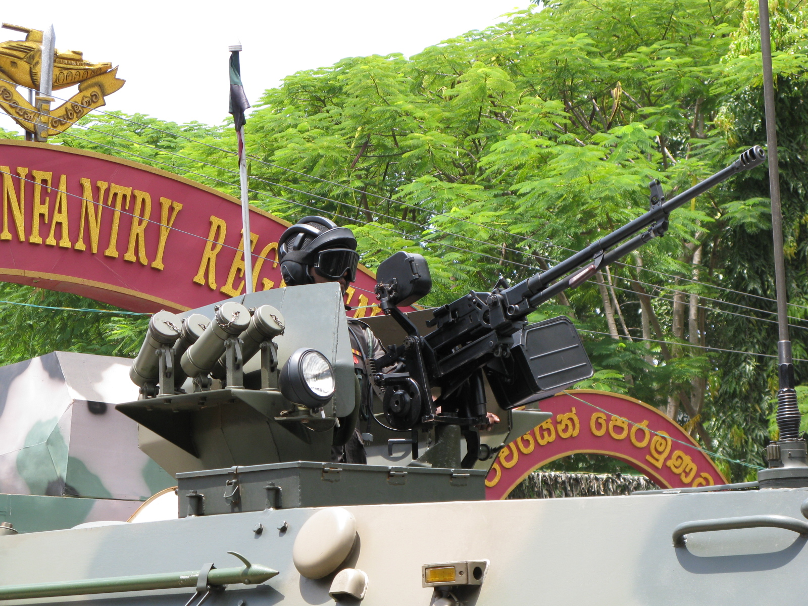 WZ551 (Type 92) Armoured Personnel Carrier - Sri Lanka Army